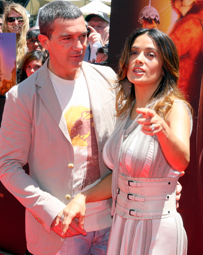 Antonio Banderas & Salma Hayek at the Puss in Boots 3D Premiere 2011.